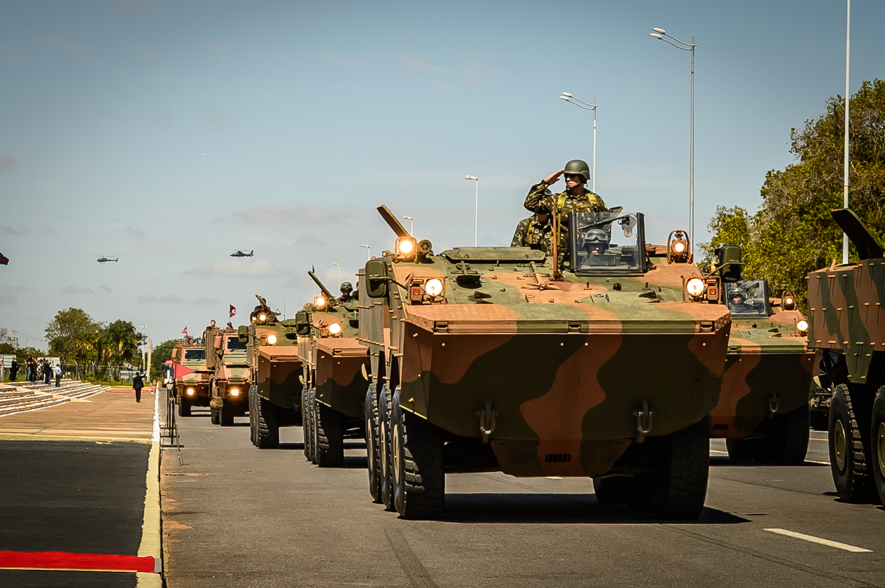 Foto: Alexandre Manfrim